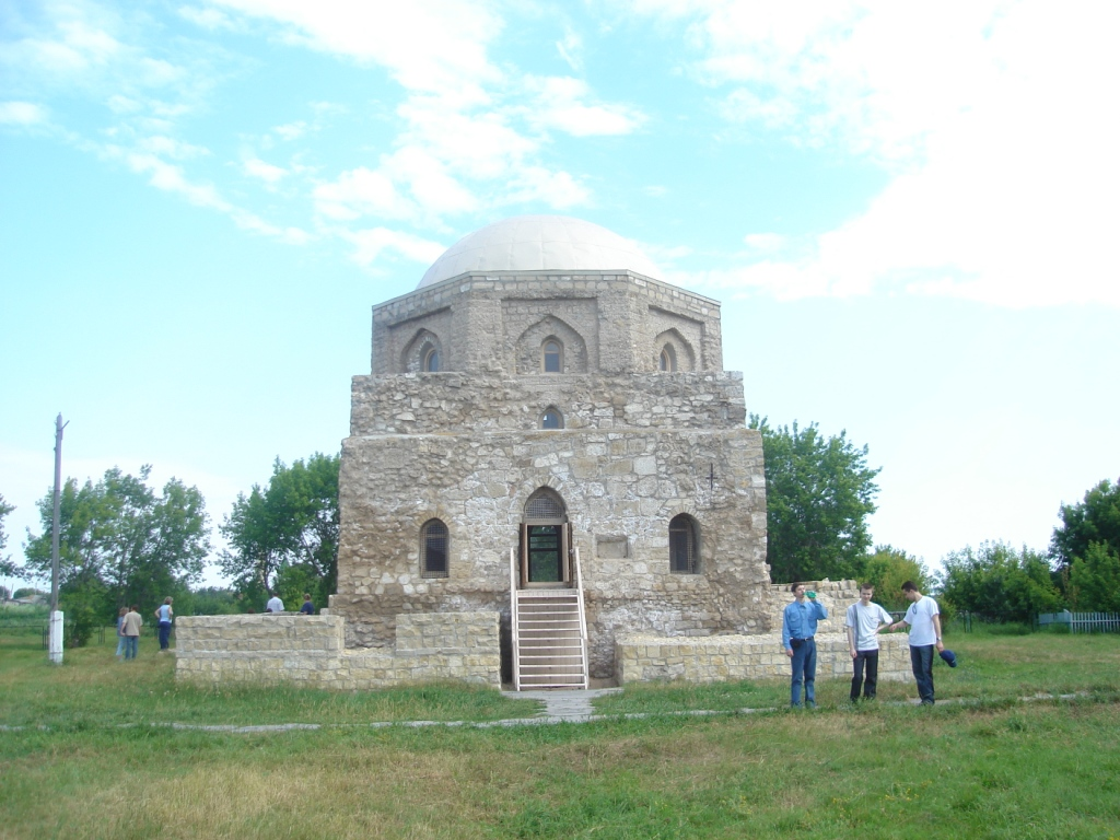 = Summary